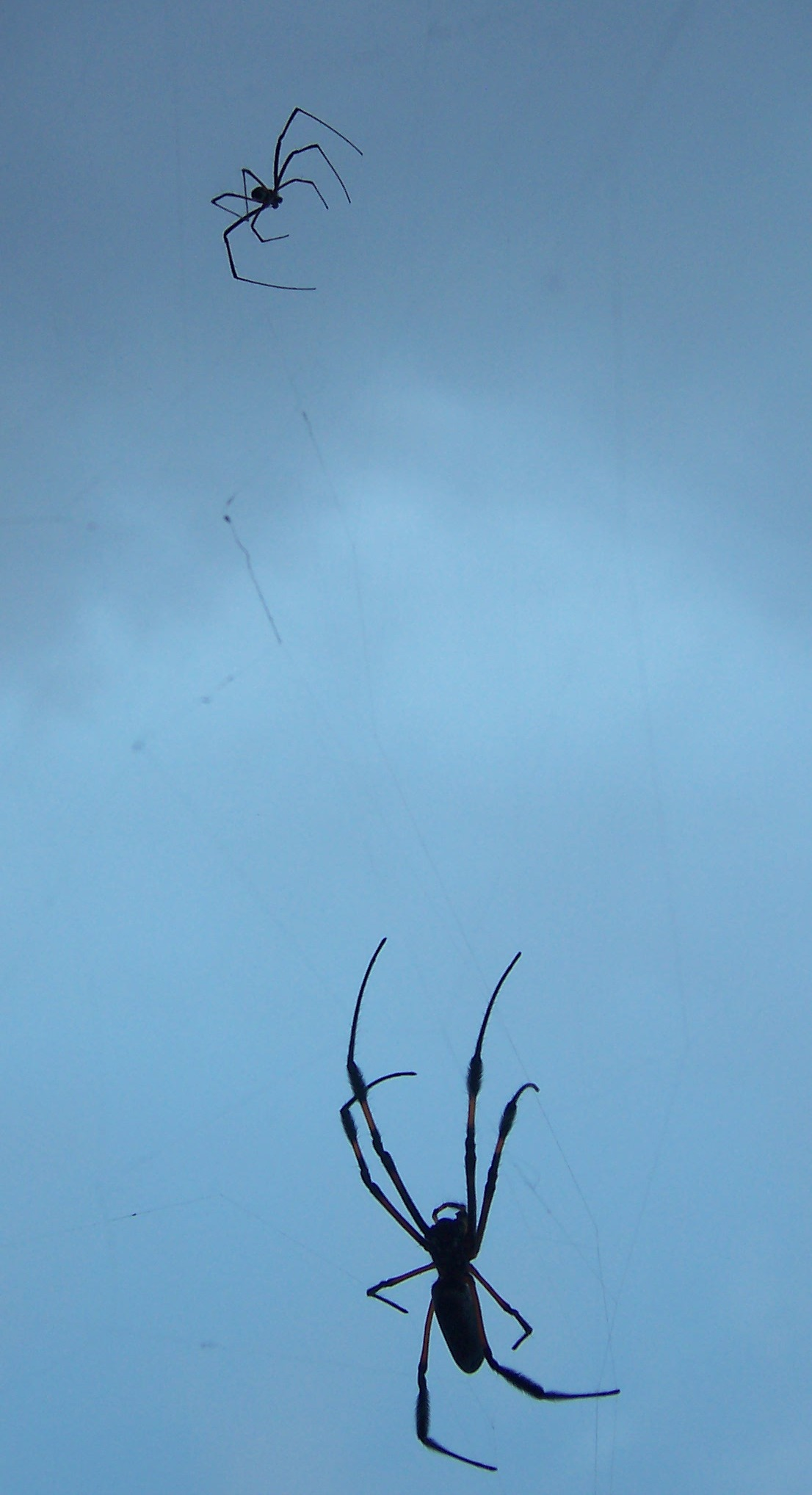 outlines of both sexes of Nephila inaurata (var. nigra) showing the difference of size between female (the largest) and male